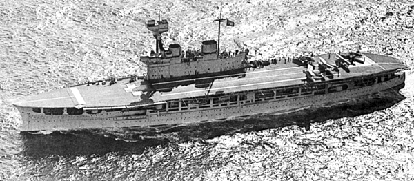 The carrier HMS Eagle (1918) in a picture taken sometime in the 1930's.